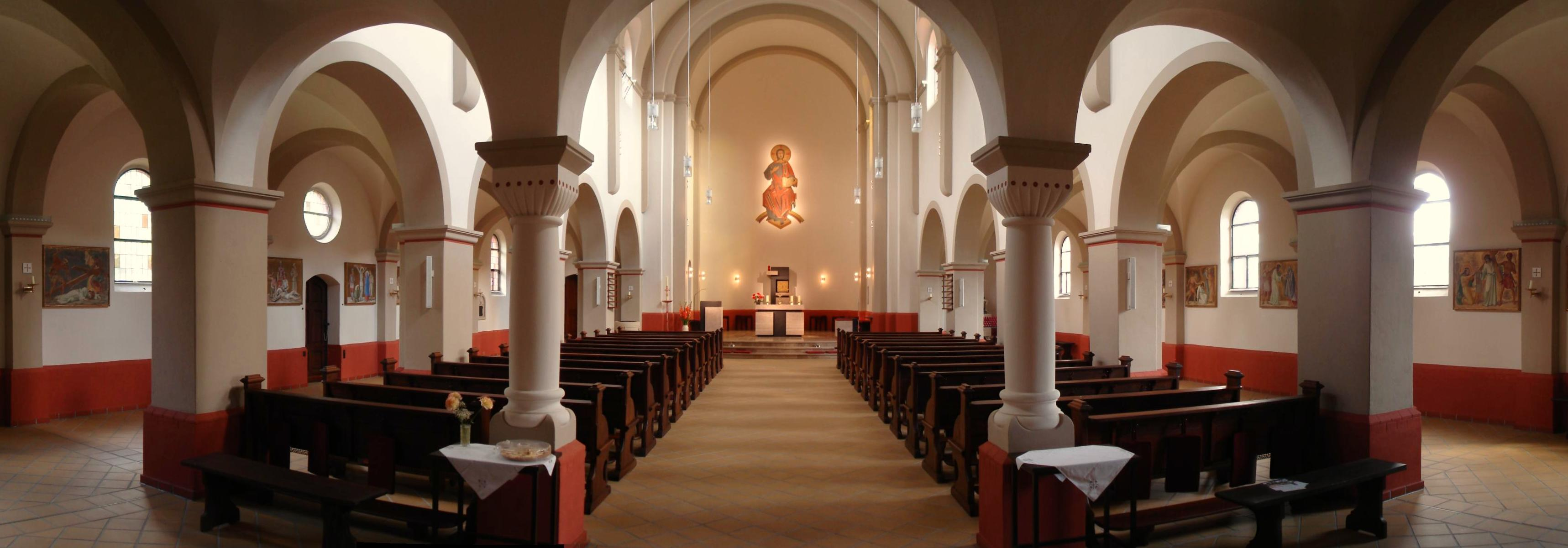 Salvator Parish Church (Anklam, Germany) Interior central and lateral naves